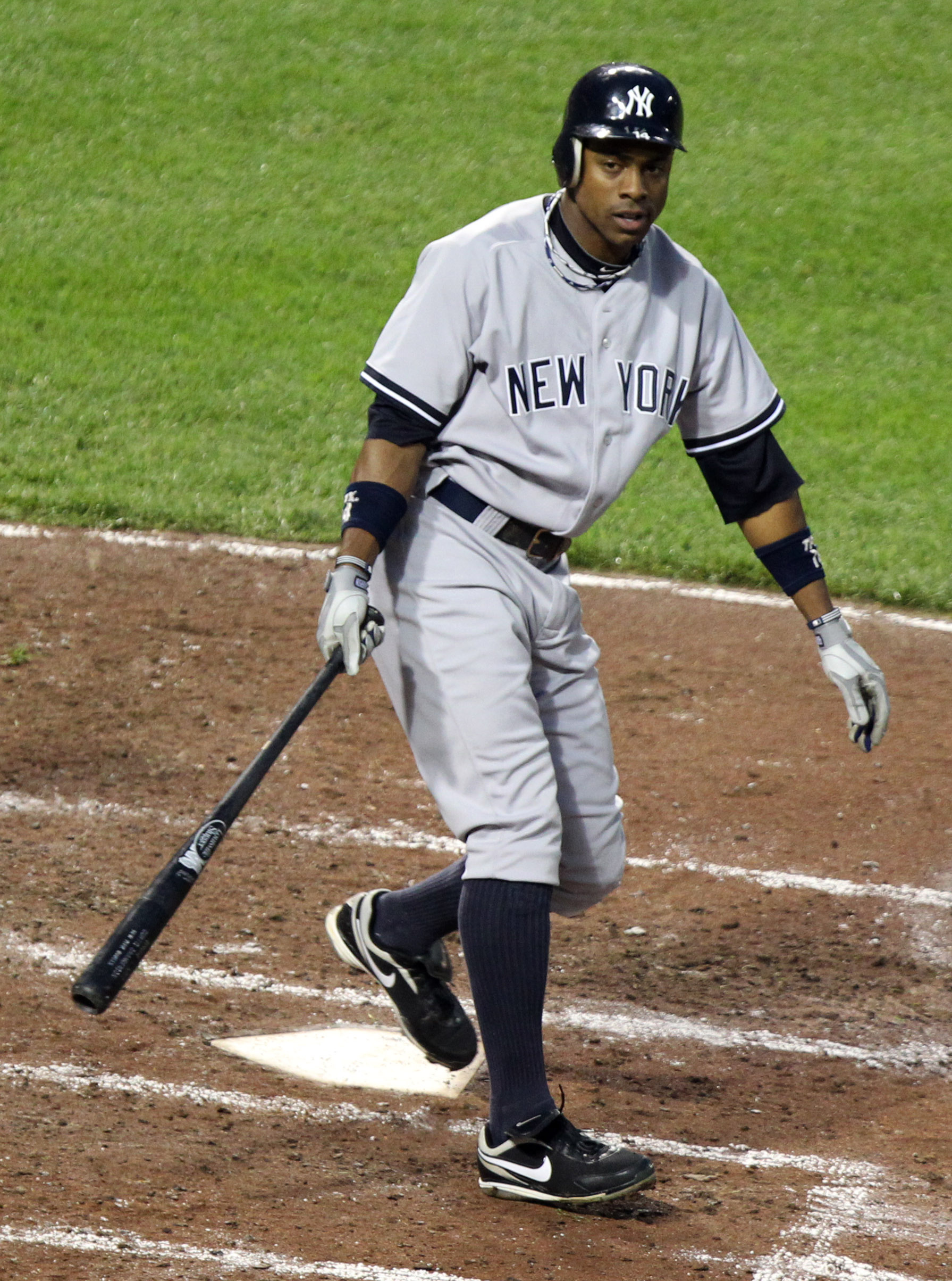 Curtis Granderson at bat during a game between the New York Yankees and Baltimore Orioles on May 18, 2011.